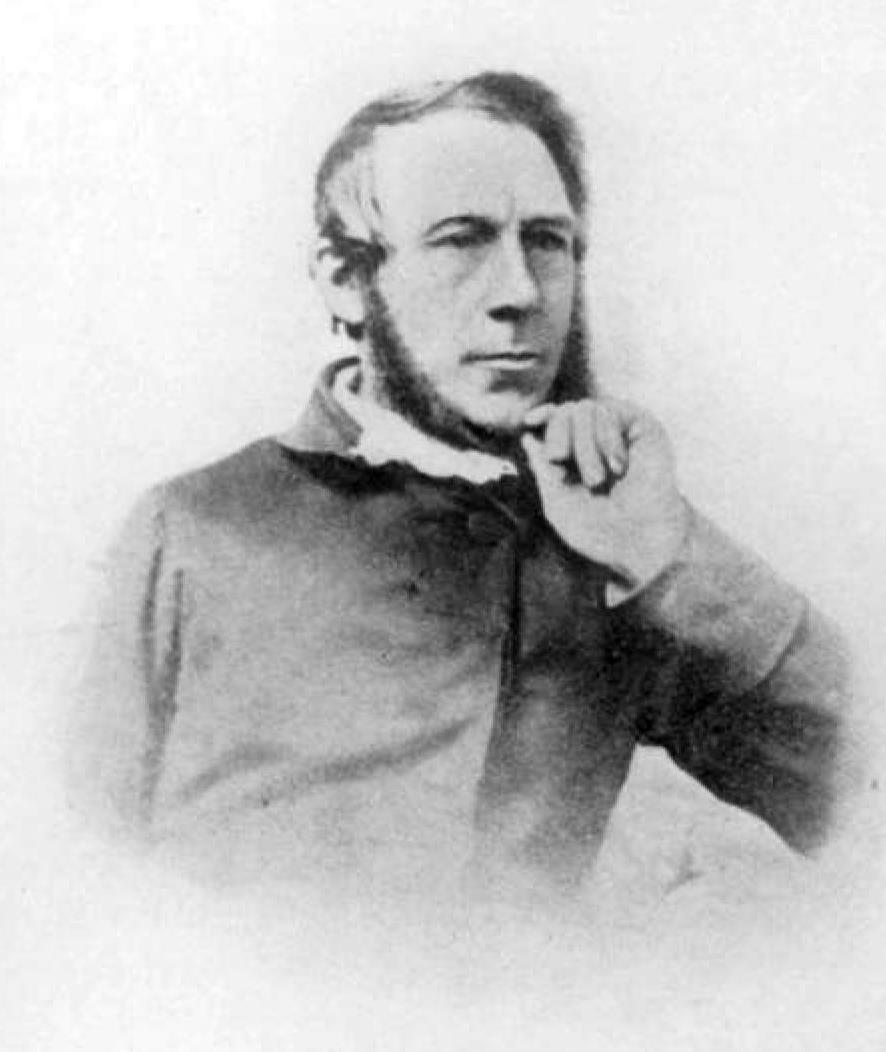 NZ missionary Cars Sylivus Völkner, dies 1865 (so the picture must have been taken before)